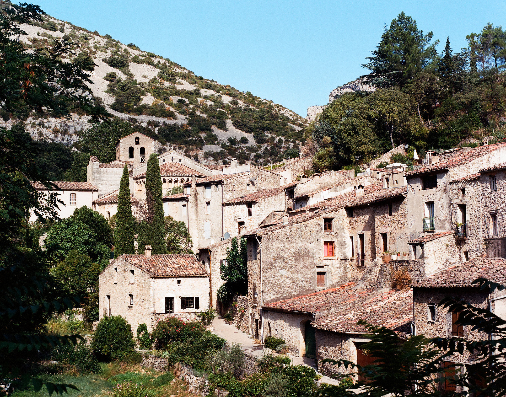 Saint-Guilhem-le-Désert and Gellone monastery